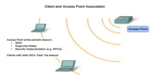 Зураг 1.1